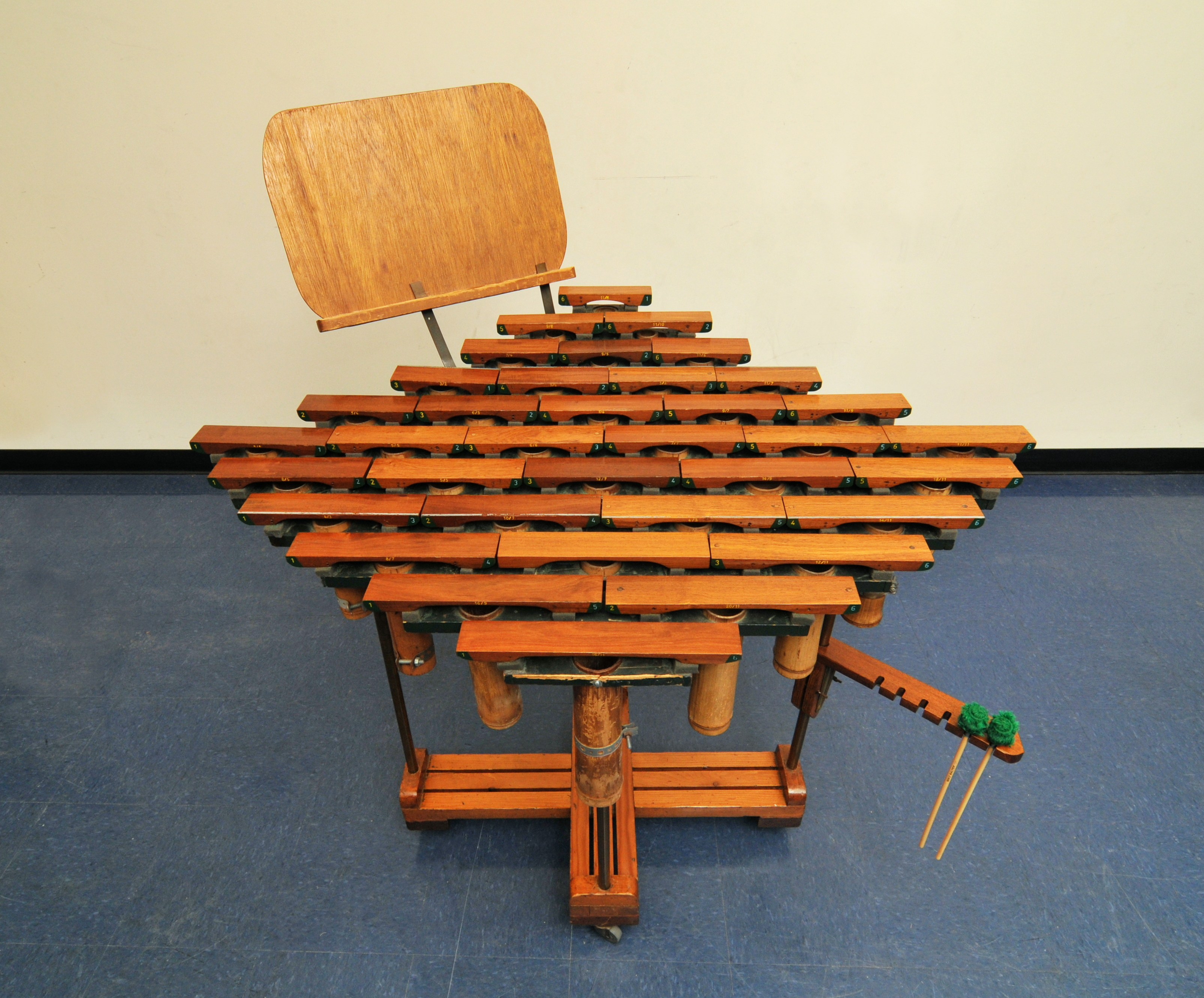 Harry Partch's Diamond Marimba, a marimba tuned to his particular system of just intonation. Photographed at the Harry Partch Institute at Montclair State University.